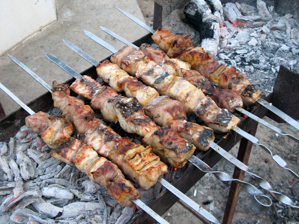 Sturgeon is the common name used for some 26 species of fish in the family Acipenseridae, including the genera Acipenser, Huso, Scaphirhynchus and Pseudoscaphirhynchus. The term includes over 20 species commonly referred to as sturgeon and several closely related species that have distinct common names, notably sterlet, kaluga and beluga. Collectively, the family is also known as the True Sturgeons. Sturgeon is sometimes used more exclusively to refer to the species in the two best-known genera; Acipenser and Huso (